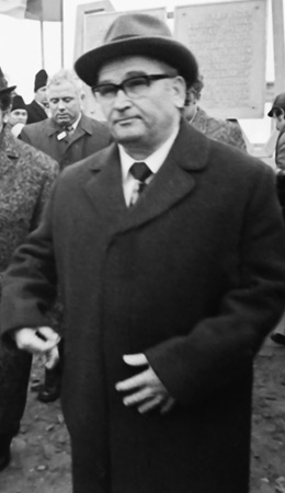 Ivan Bodiul at the opening hydro node Stanca-Costesti on the Prut River.